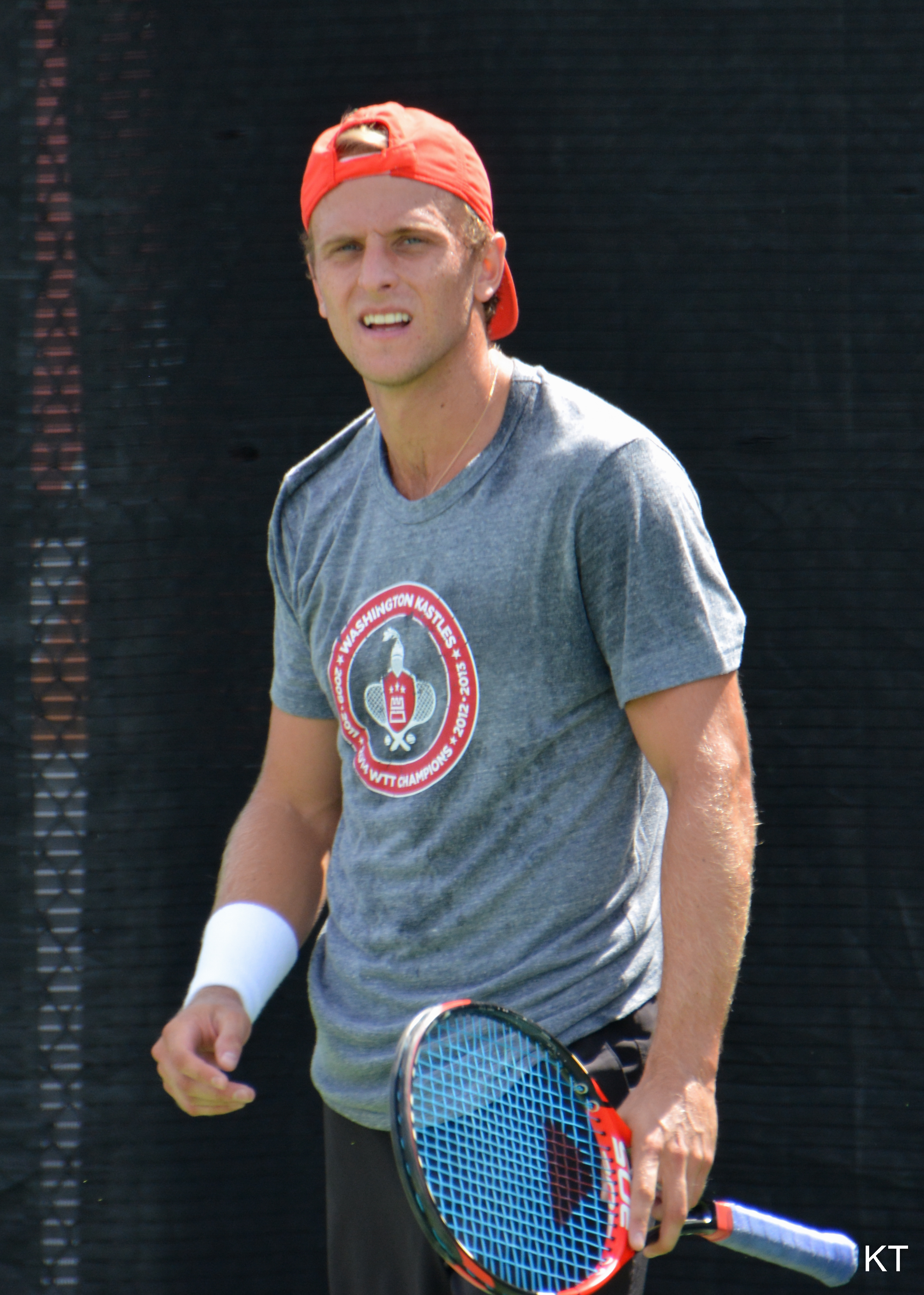 On the practice court at Coupe Rogers. Montreal 2015.